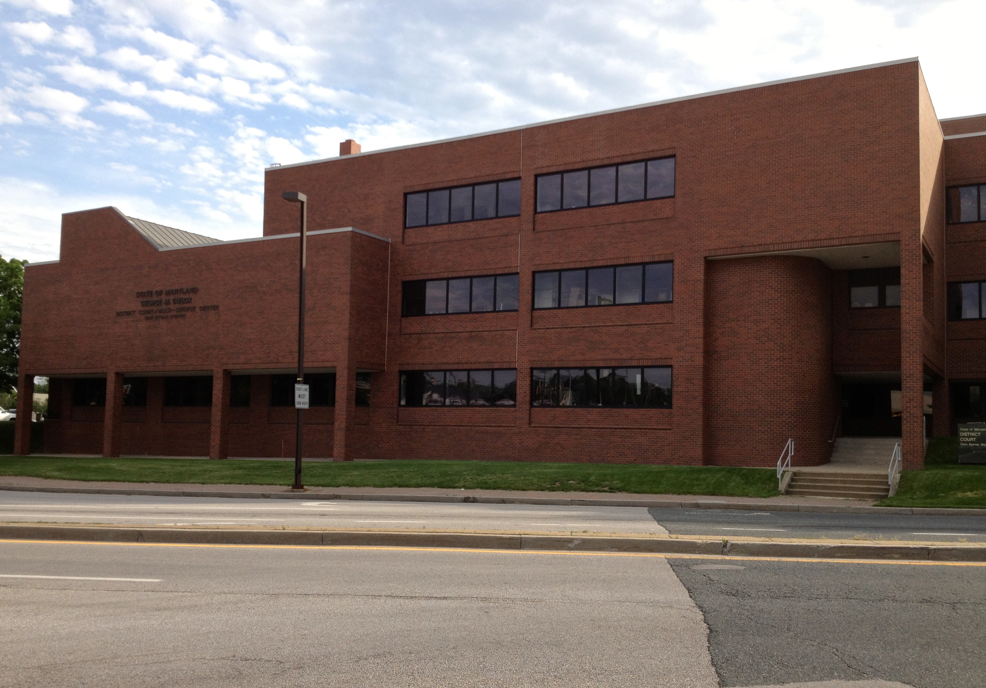 Courthouse, Glen Burnie MD, May 15, 2013.